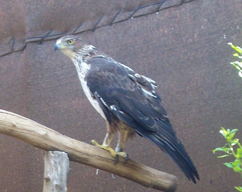 Bonelli's Eagle (Aquila fasciata) at Jerez de la Frontera Zoo.